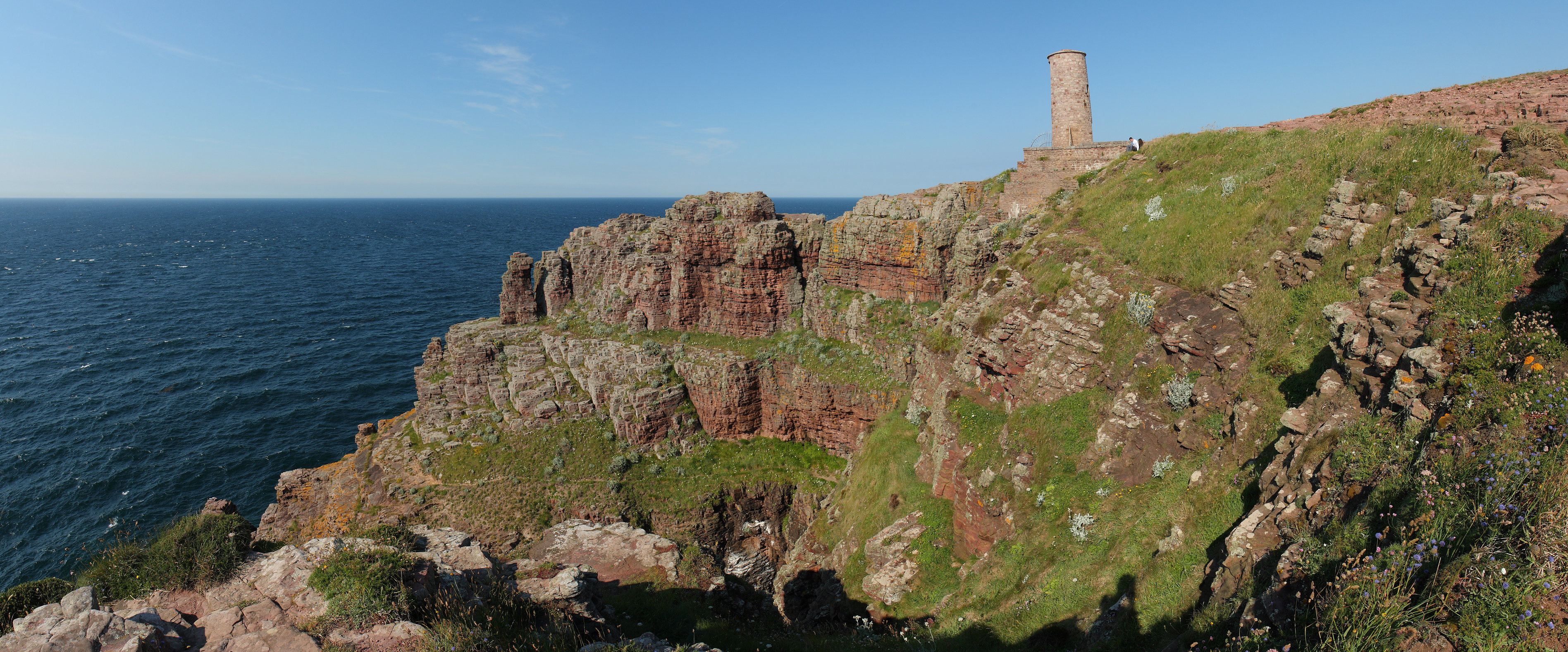 Cap Fréhel peninsula's cliffs, on the west side. This picture is a mosaic of 6 photos taken at 17mm on a 1.6 crop body (28mm equiv.), f/8.0, 1/250s and ISO 100. Stereographic projection was used. Stitching was done with Hugin and Enblend. Resulting horizontal FOV is about 150°